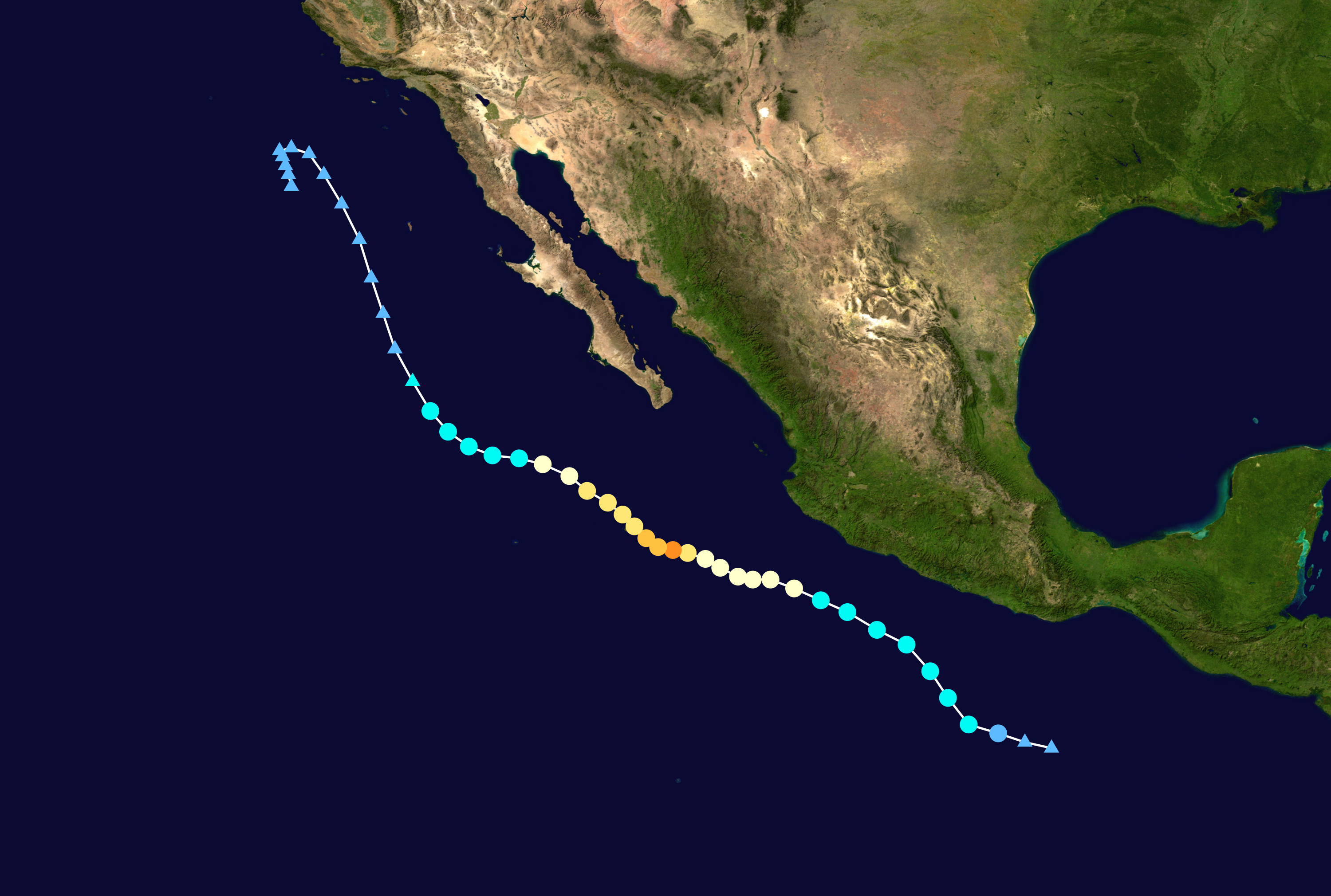 Track map of Hurricane Dolores of the 2015 Pacific hurricane season. The points show the location of the storm at 6-hour intervals. The colour represents the storm's maximum sustained wind speeds as classified in the Saffir–Simpson scale (see below), and the shape of the data points represent the nature of the storm, according to the legend below. Saffir–Simpson scale Tropical depression≤38 mph≤62 km/h Category 3111–129 mph178–208 km/h Tropical storm39–73 mph63–118 km/h Category 4130–156 mph209–251 km/h Category 174–95 mph119–153 km/h Category 5≥157 mph≥252 km/h Category 296–110 mph154–177 km/h Unknown Storm type Tropical cyclone Subtropical cyclone Extratropical cyclone / Remnant low / Tropical disturbance / Monsoon depression